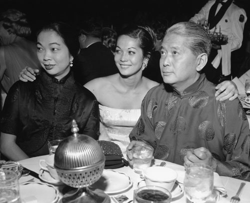 Nancy Kwan at the premiere of the 1961 film Flower Drum Song with Kwan Wing Hong, her father, and her step-mother